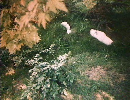 Death of Psyche